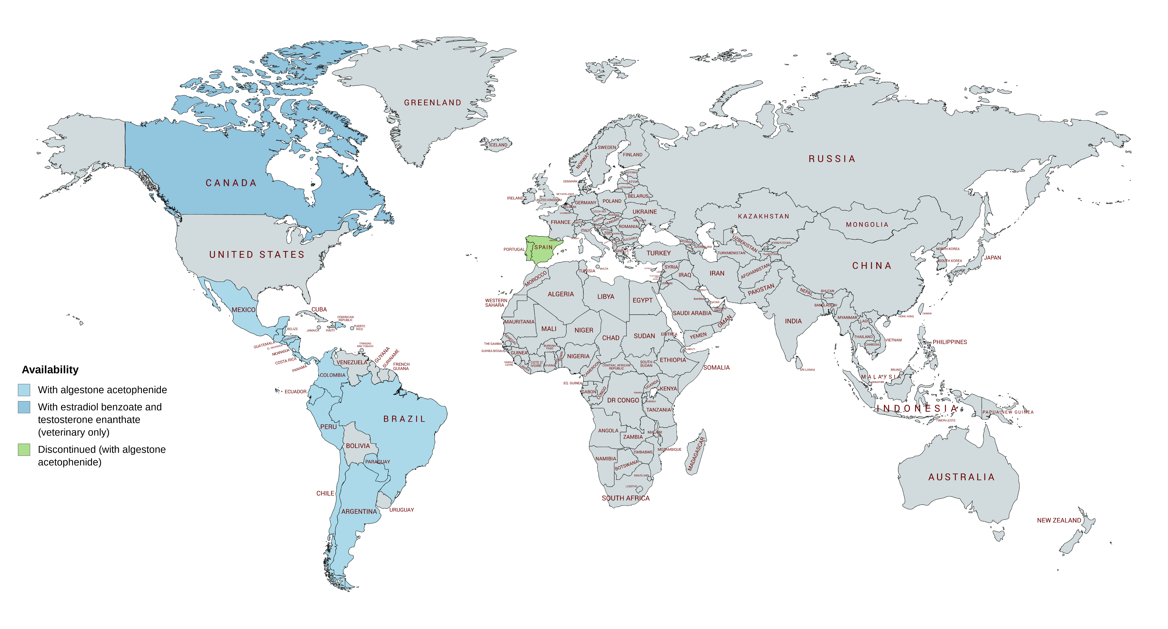 Known availability of estradiol enanthate as of September 2018. Created from source material using . Source of the information: See Estradiol enanthate#Availability and references.